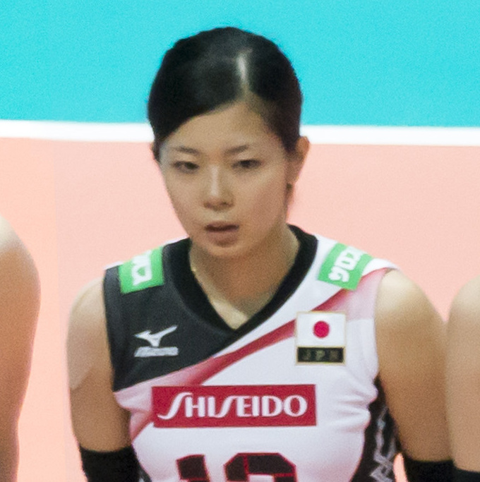 JAPAN TEAM 2. SARINA KOGA 3. NANA IWASAKA 4. RISA SHINNABE 9. HARUYO SHIMAMURA 10. KOYOMI TOMINAGA 11. YURIE NABEYA 12. MIYA SATO 13. MAI OKUMURA 14. AYAKA MATSUMOTO 16. RISA ISHII 18. MAMI UCHISETO 20. MAKO KOBATA 21. KOTOE INOUE 23. RIKA NOMOTO 24. MIZUKI TANAKA